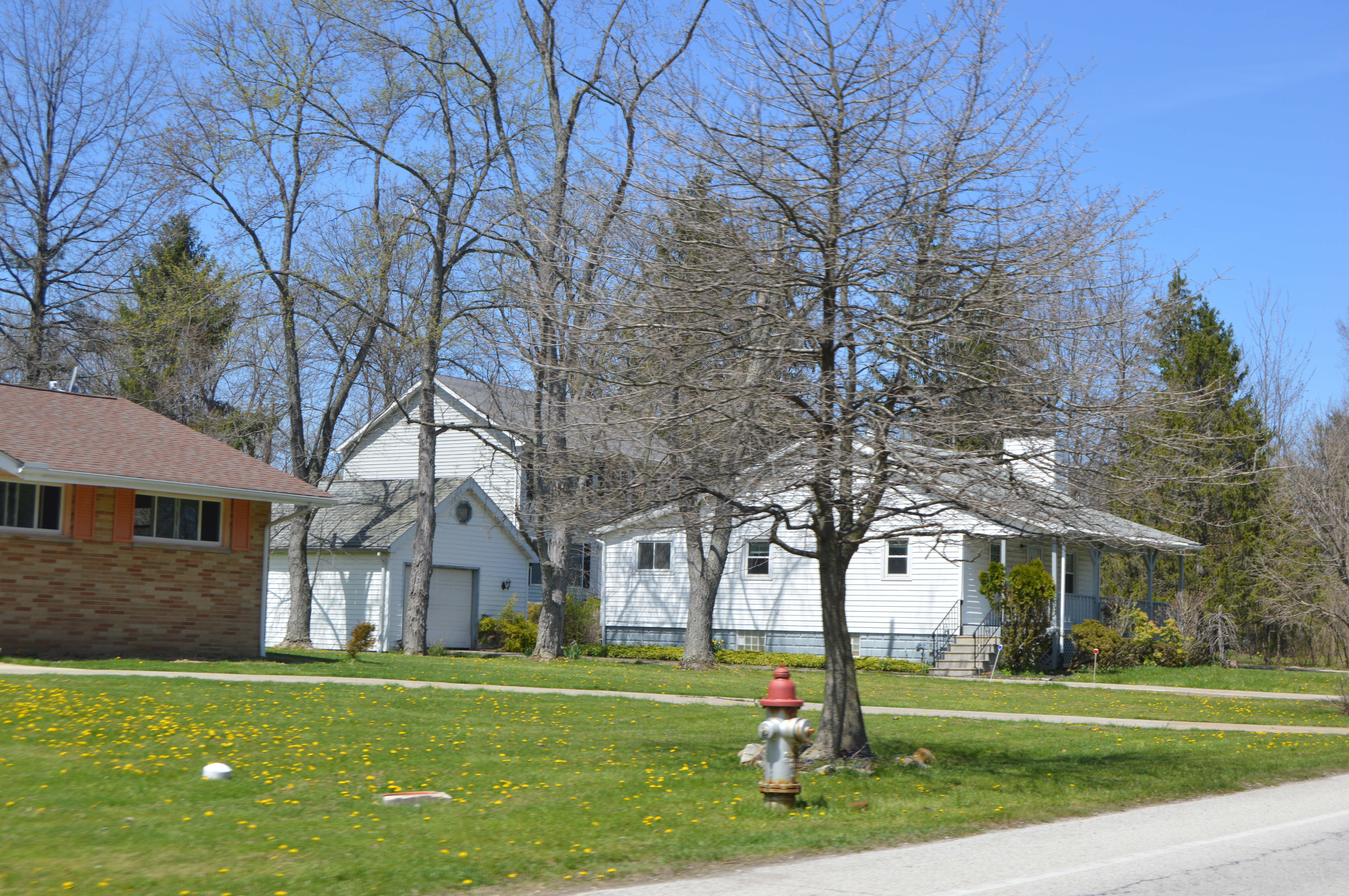 Houses on the western side of Brainard Road in southern Woodmere, Ohio, United States.